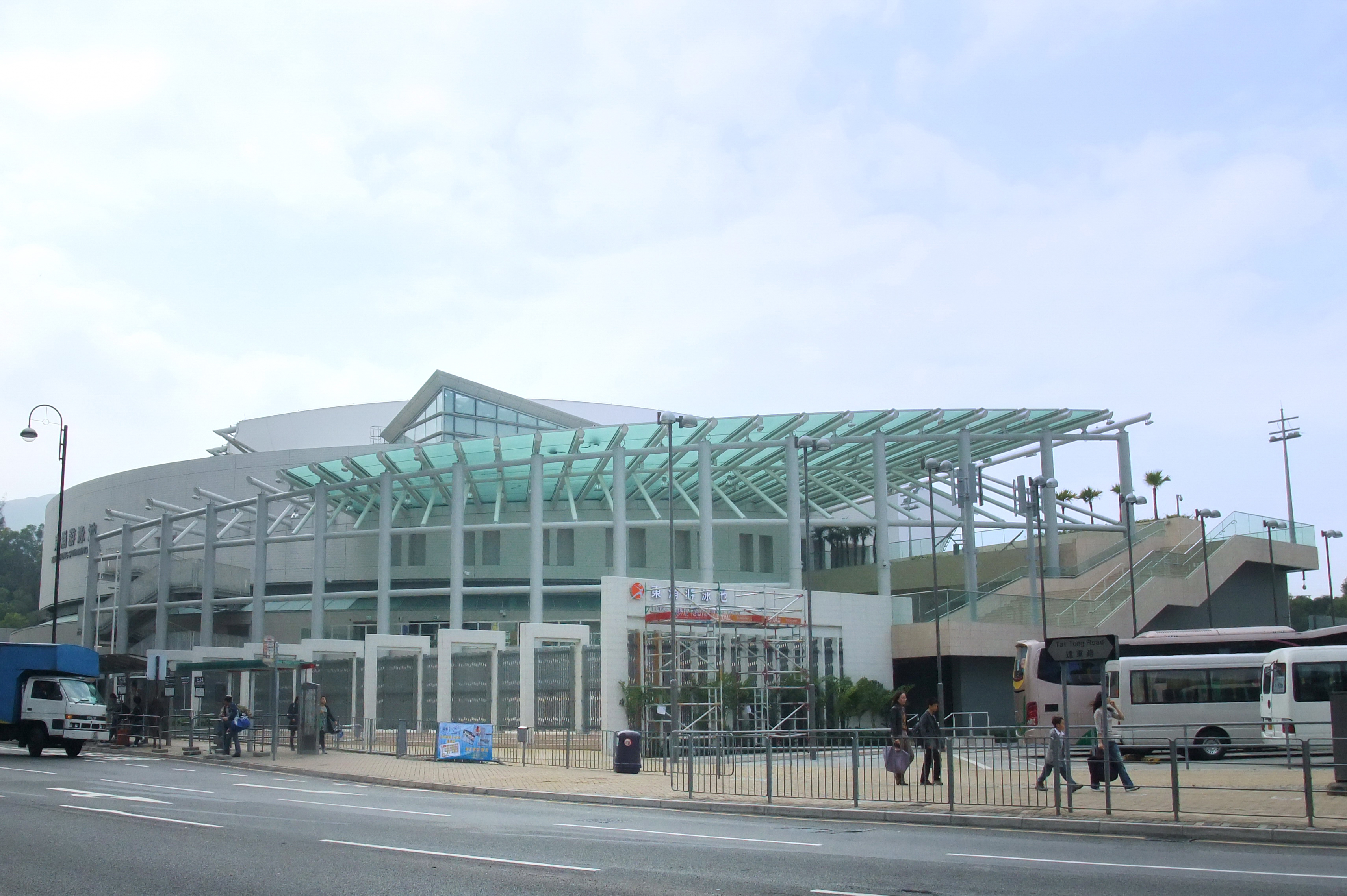 Hong Kong Tung Chung Swimming Pool Complex. It consists of an indoor heated main pool (50m x 25m) with a spectator stand of 1,000 seats, an outdoor teaching pool (25m x 25m) and a sun bathing area with shelters.